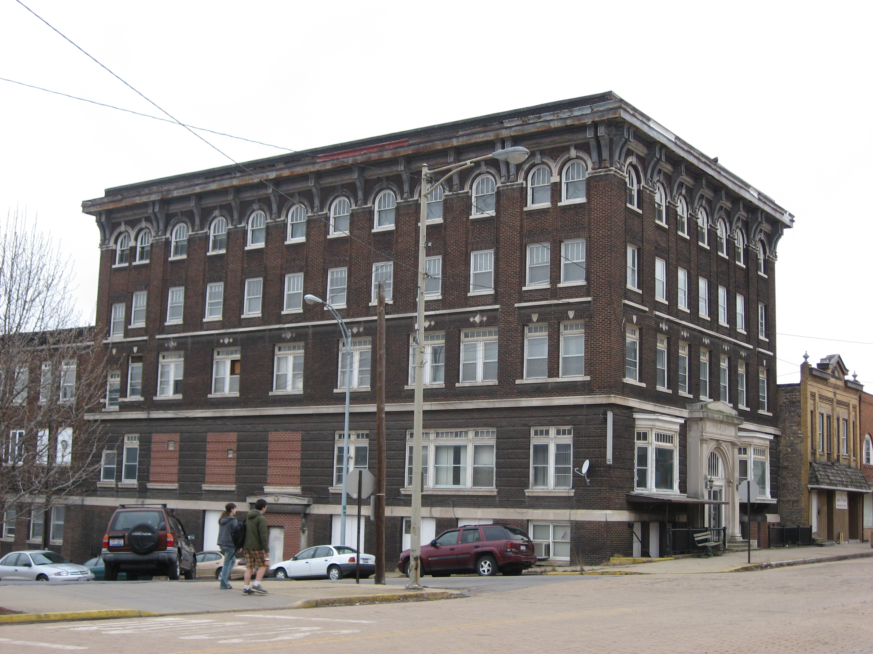 The East Liverpool YMCA, located at the intersection of Washington and Fourth Streets in downtown East Liverpool, Ohio, United States. Built in 1913, the YMCA Building is listed on the National Register of Historic Places.